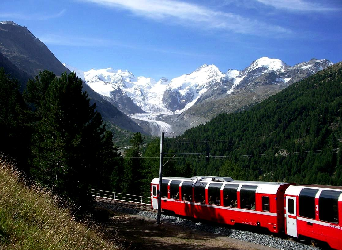 the Bernina Express with Piz Bernina in Background